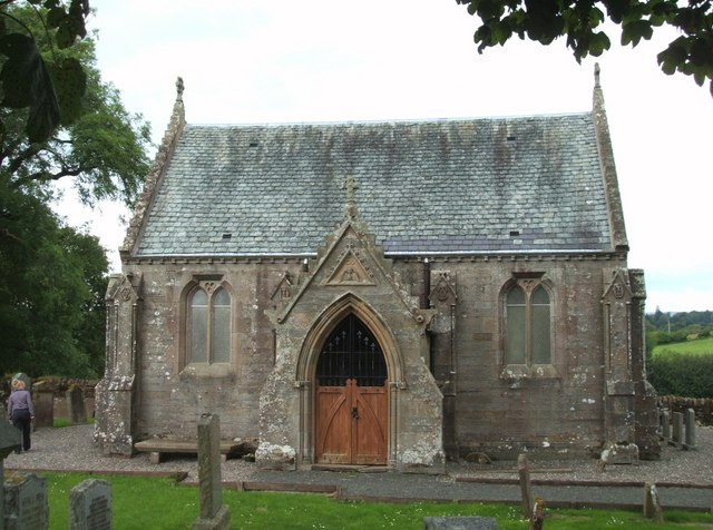 Kilbryde Chapel Believe that it is part of the Kilbryde Castle estate. Beautiful exterior, would have loved to have seen inside.